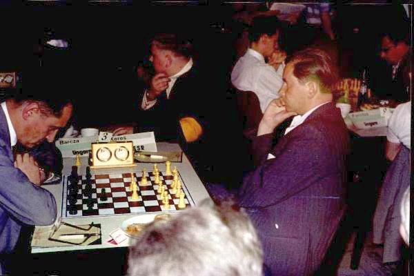 Gedeon Barcza - Paul Keres, European Team Championship, Oberhausen 1961, Photographer Gerhard Hund.